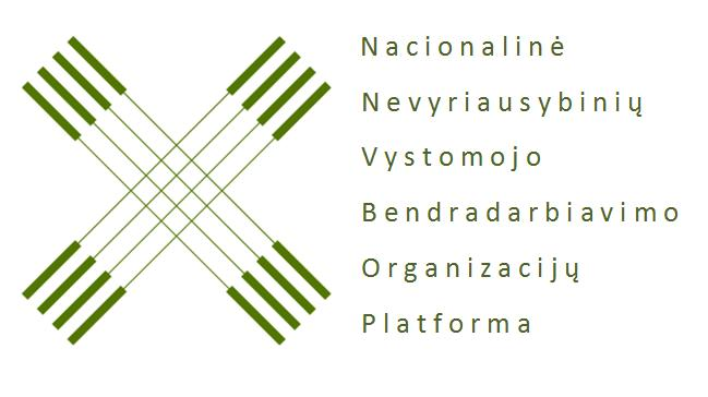 The logo of Lithuanian NGDO Platform